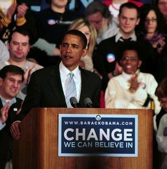 Barack Obama at the Soldiers and Sailors National Military Museum and Memorial in Pittsburgh